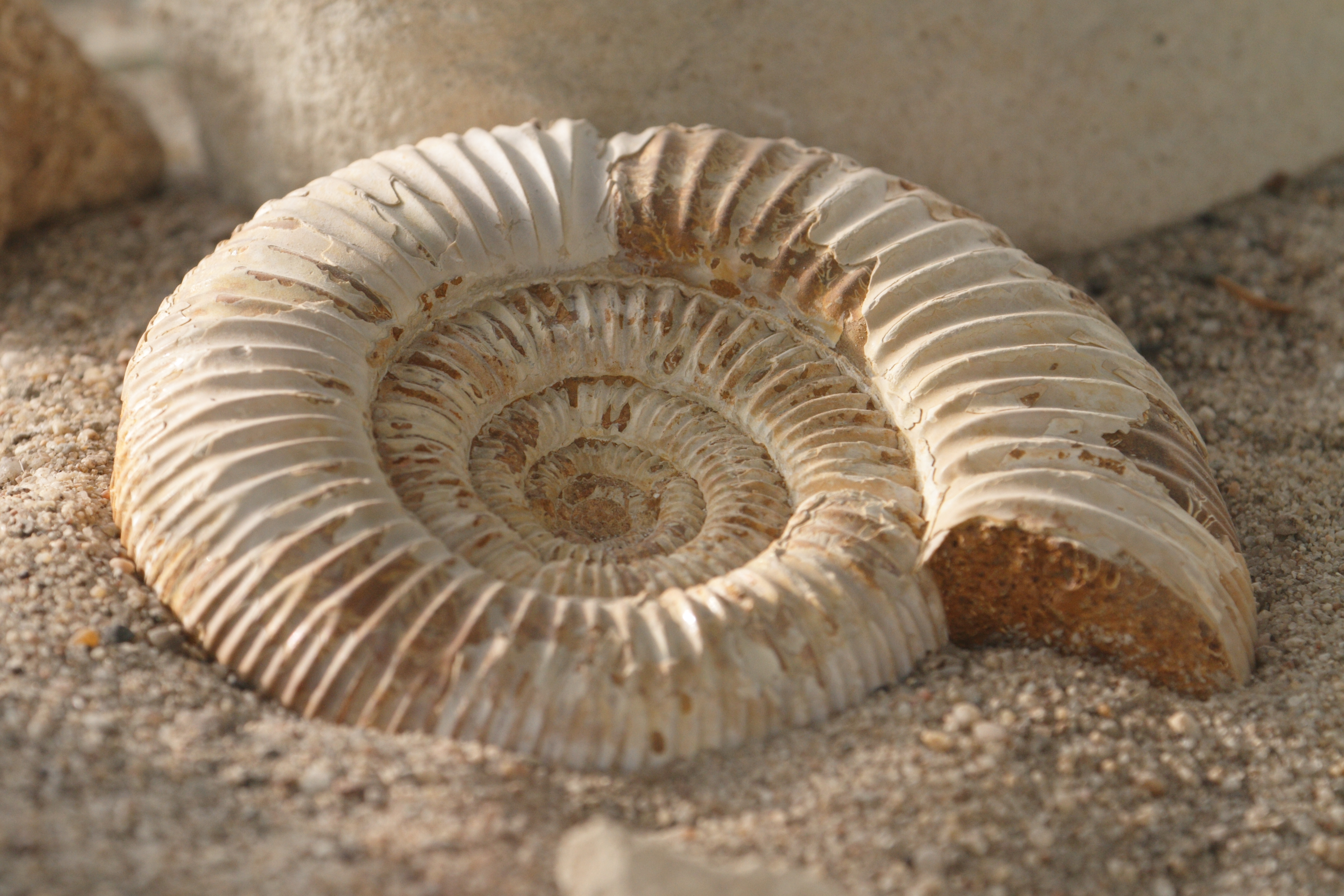 Highly probable Perisphinctes sp. from Oxfordian age